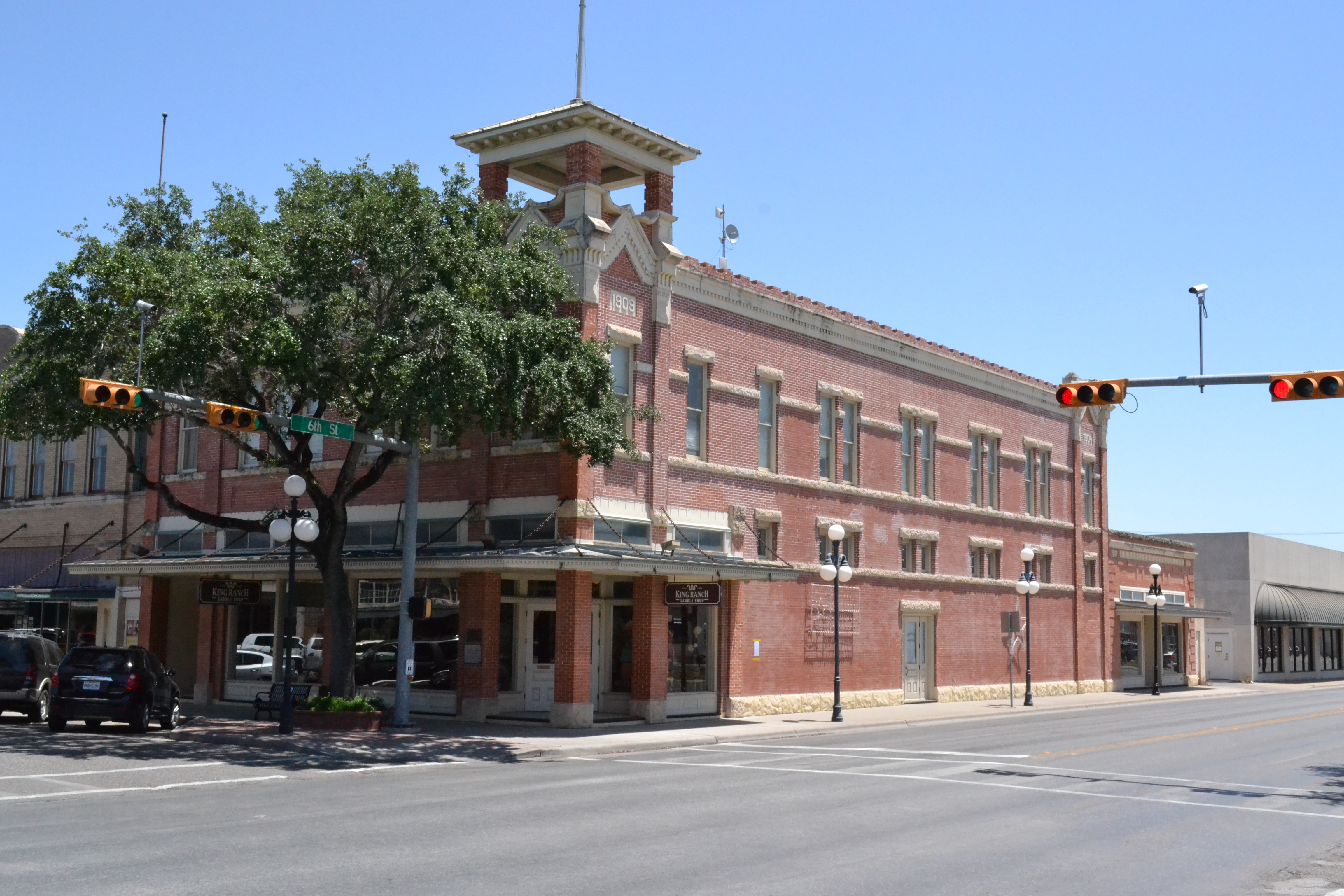 John B. Ragland Mercantile Company Building, Kingsville, Texas. Listed on the National Register of Historic Places.